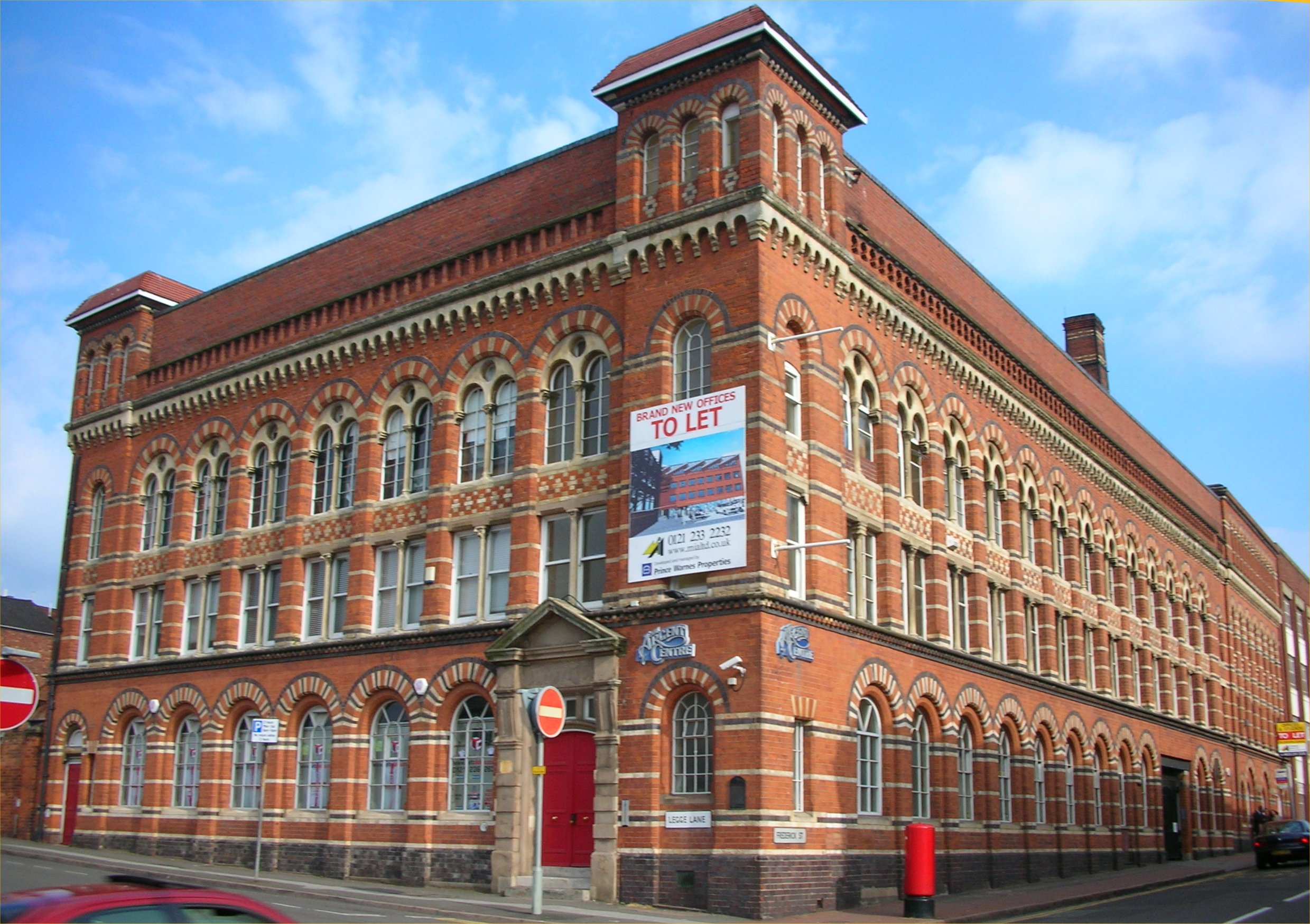 The Argent Centre, former Argent Works of pen maker W. E. Wiley, in the Jewellery Quarter, Birmingham, England. Built 1863, designed by J. G. Bland.